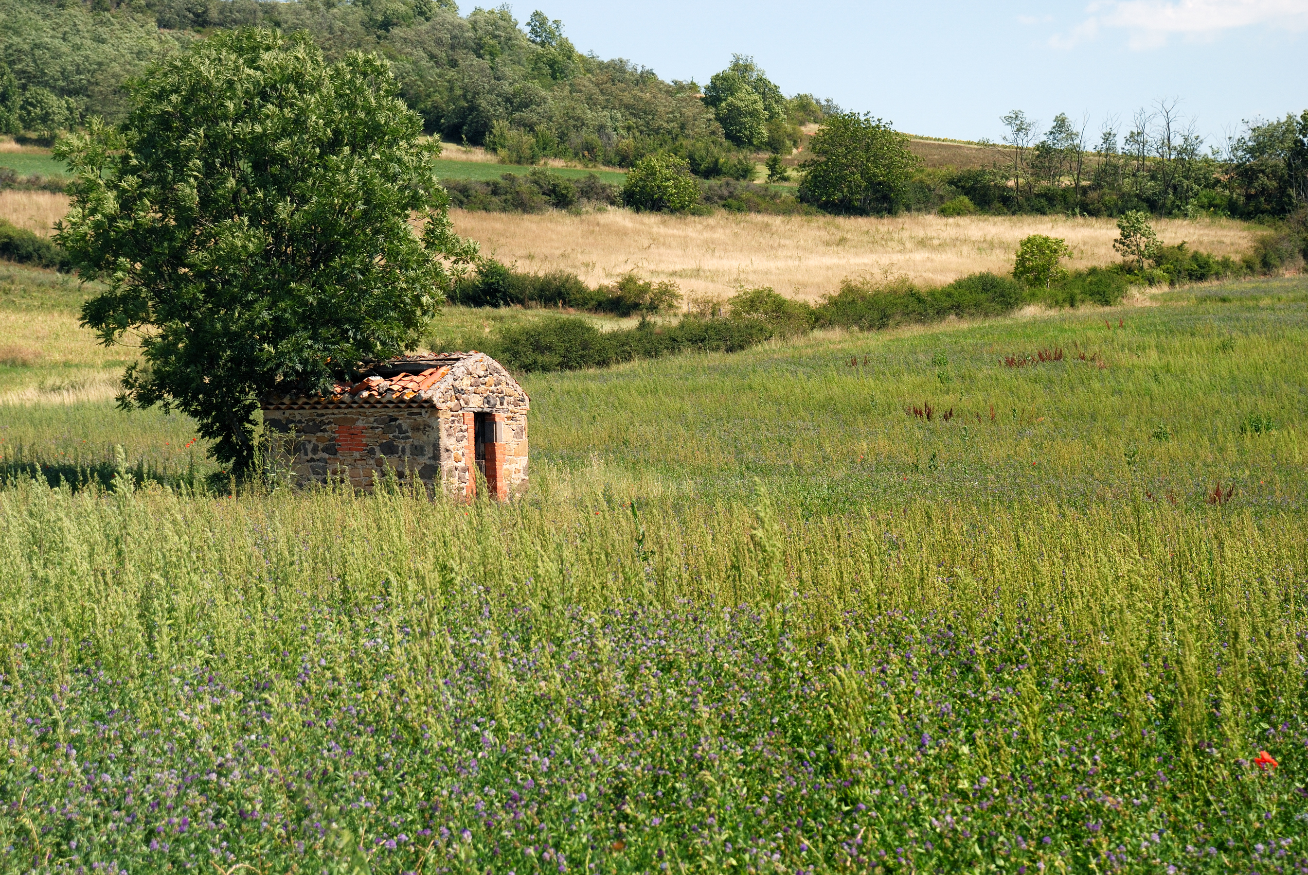 Village of Saint-Julien : "tonne" (in the local language of Clermont-Ferrand a small house used to put gardening tools) (Commune of Montaigut-le-Blanc, Puy-de-Dôme, France). Translations in other languages are welcome.